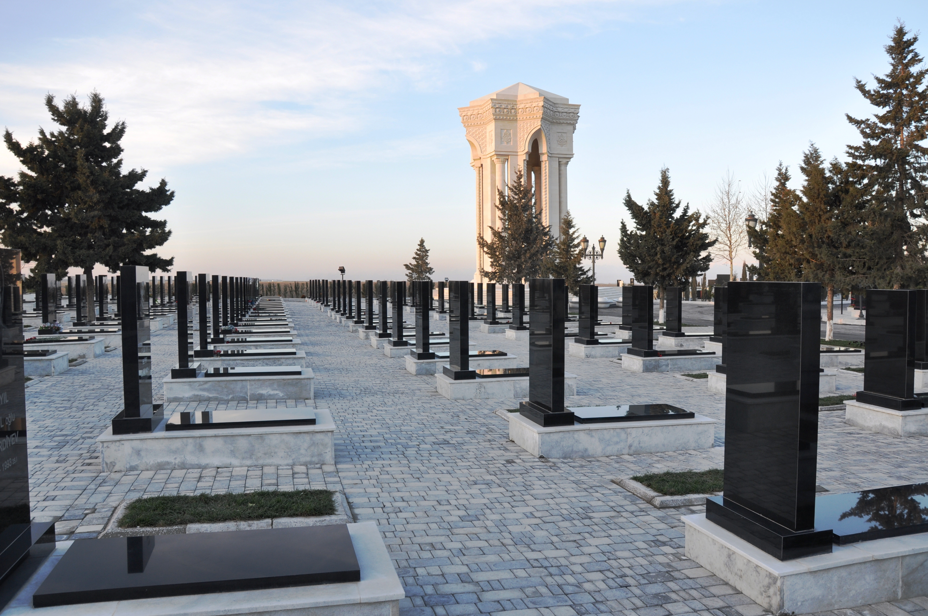 Alley of Shahids in Ganja. Azerbaijan.